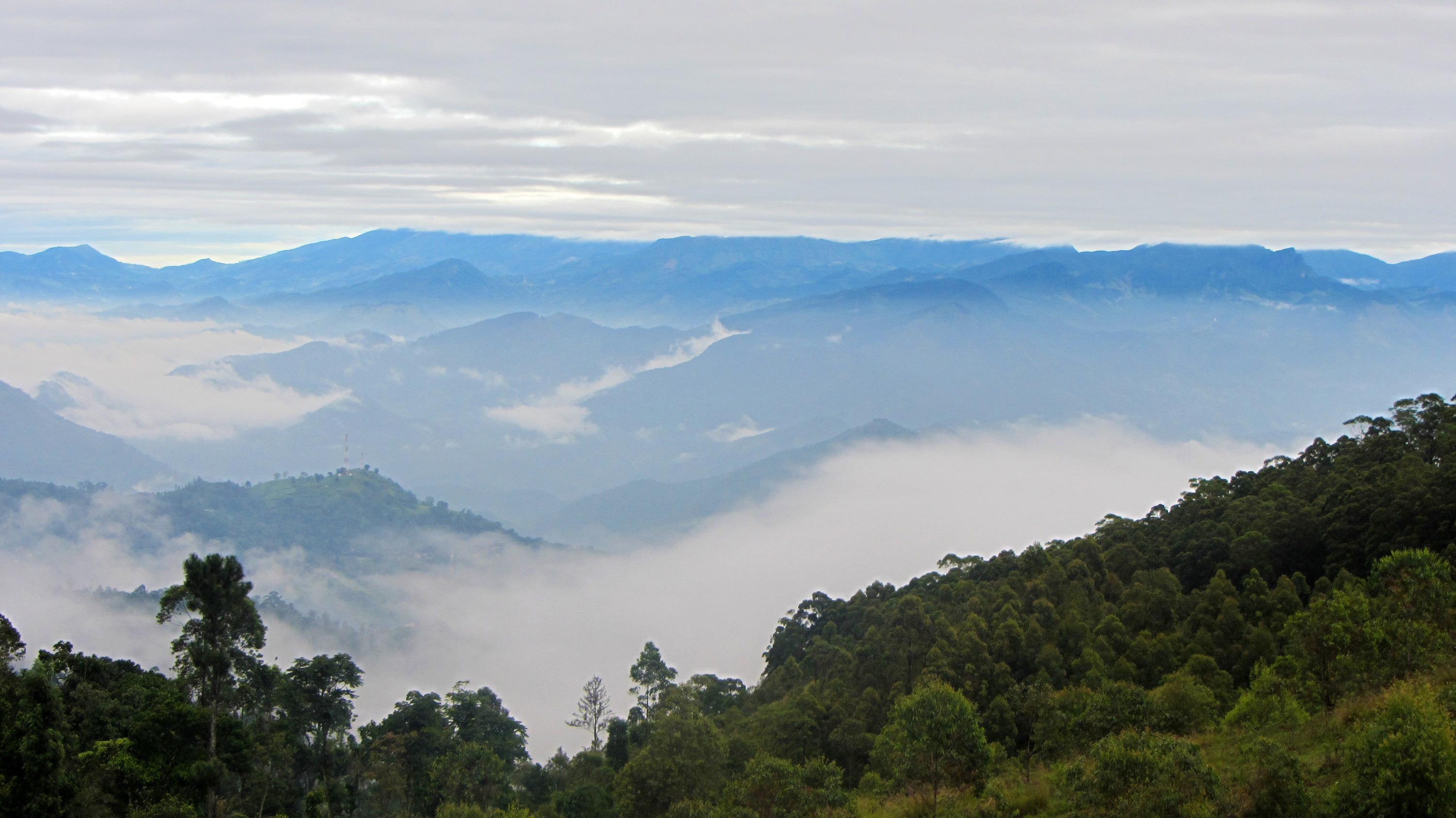 Views from Walapane, Sri Lanka.